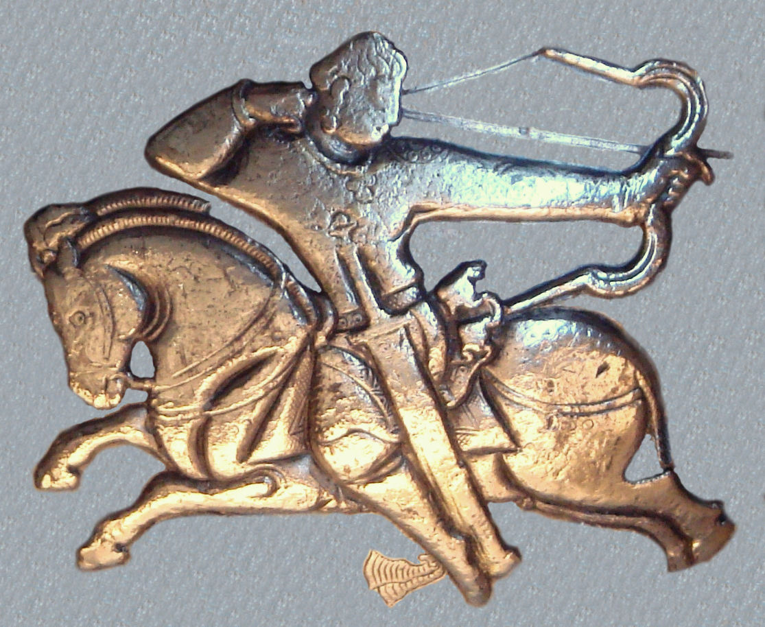 Hephthalite horseman on British Museum bowl 460-479 CE British Museum notice